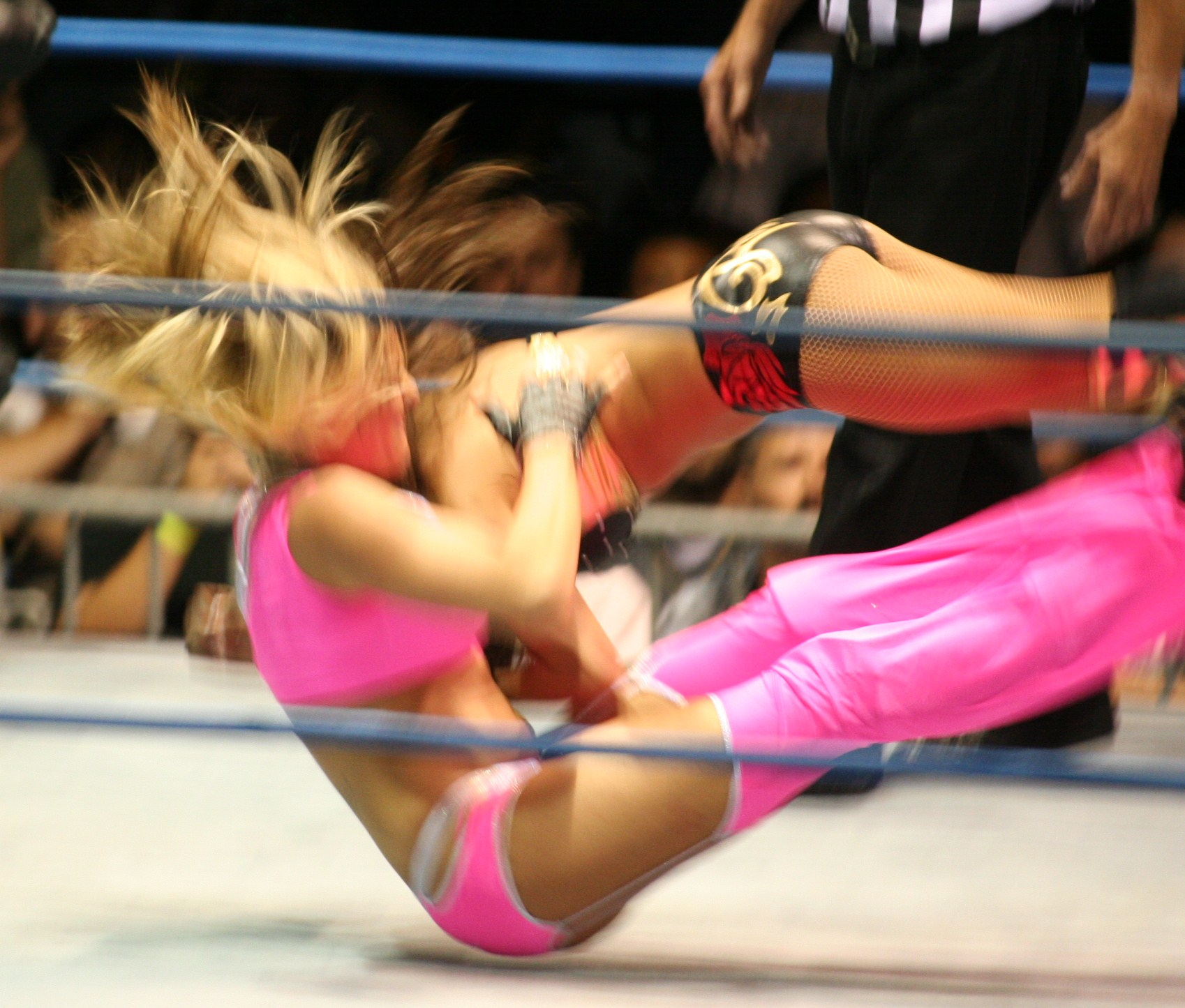 Professional wrestler Velvet Sky performing a DDT on Sarita at a TNA live event.